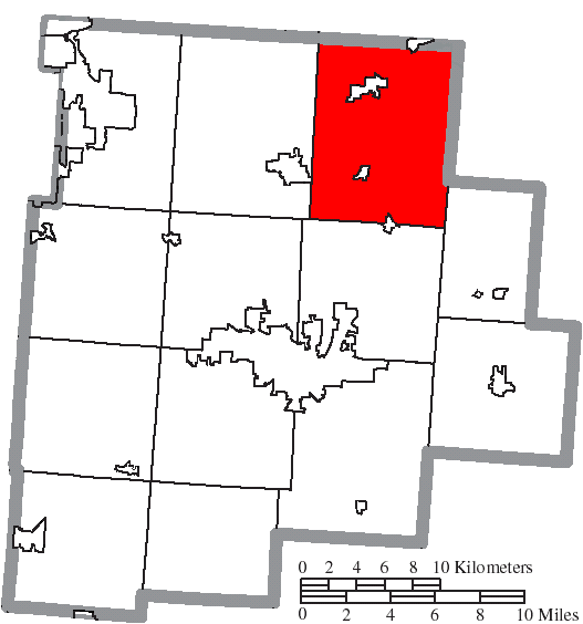 Map of the municipal and township boundaries of Fairfield County, Ohio, United States, as of the 2000 census, with the location of Walnut Township highlighted. Township borders are shown only in unincorporated areas in order to differentiate incorporated and unincorporated areas more clearly.